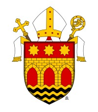 Coat of arms Rožňava diocese